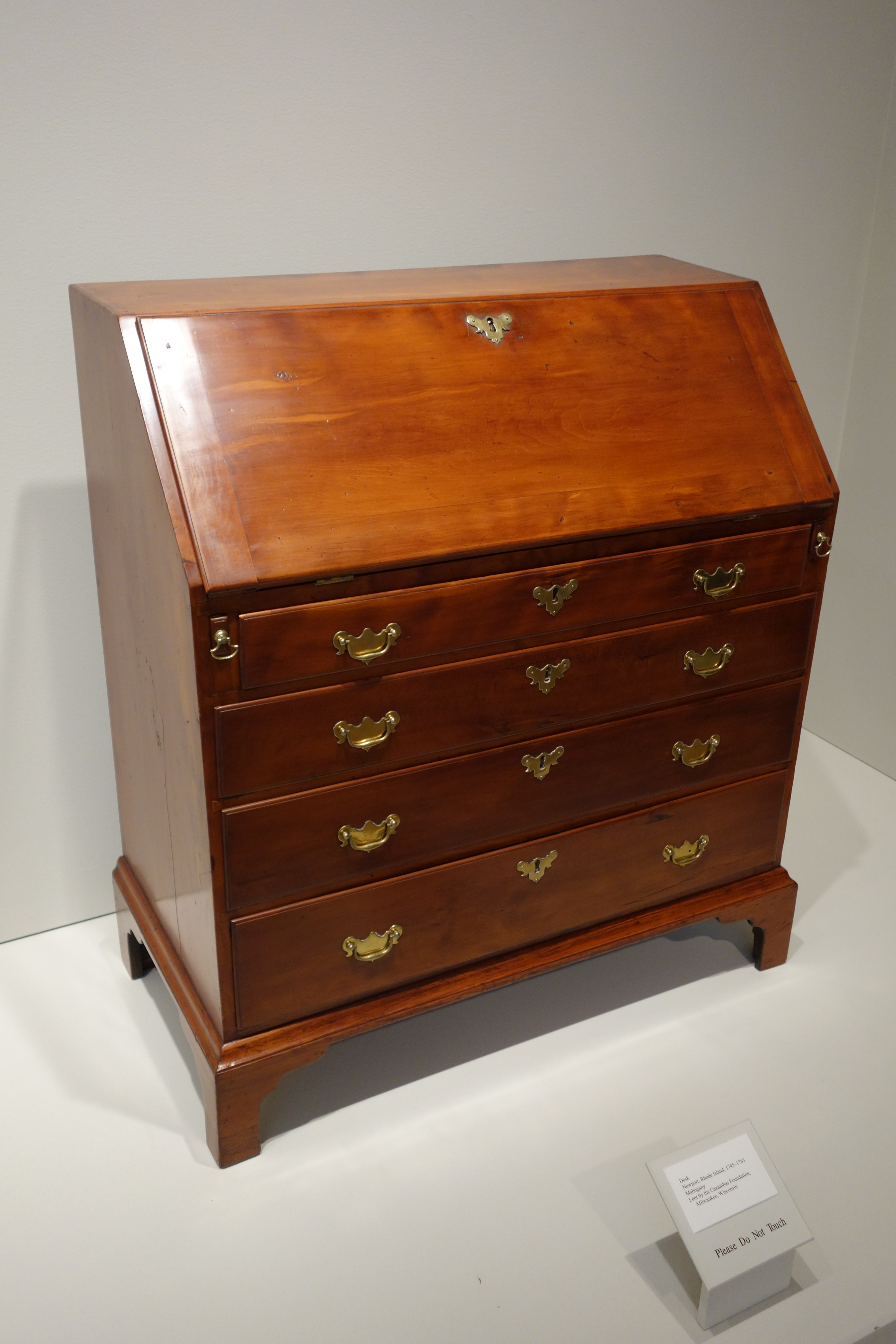 Exhibit in the Chazen Museum of Art, University of Wisconsin-Madison, Madison, Wisconsin, USA. This artwork is old enough so that it is in the public domain.